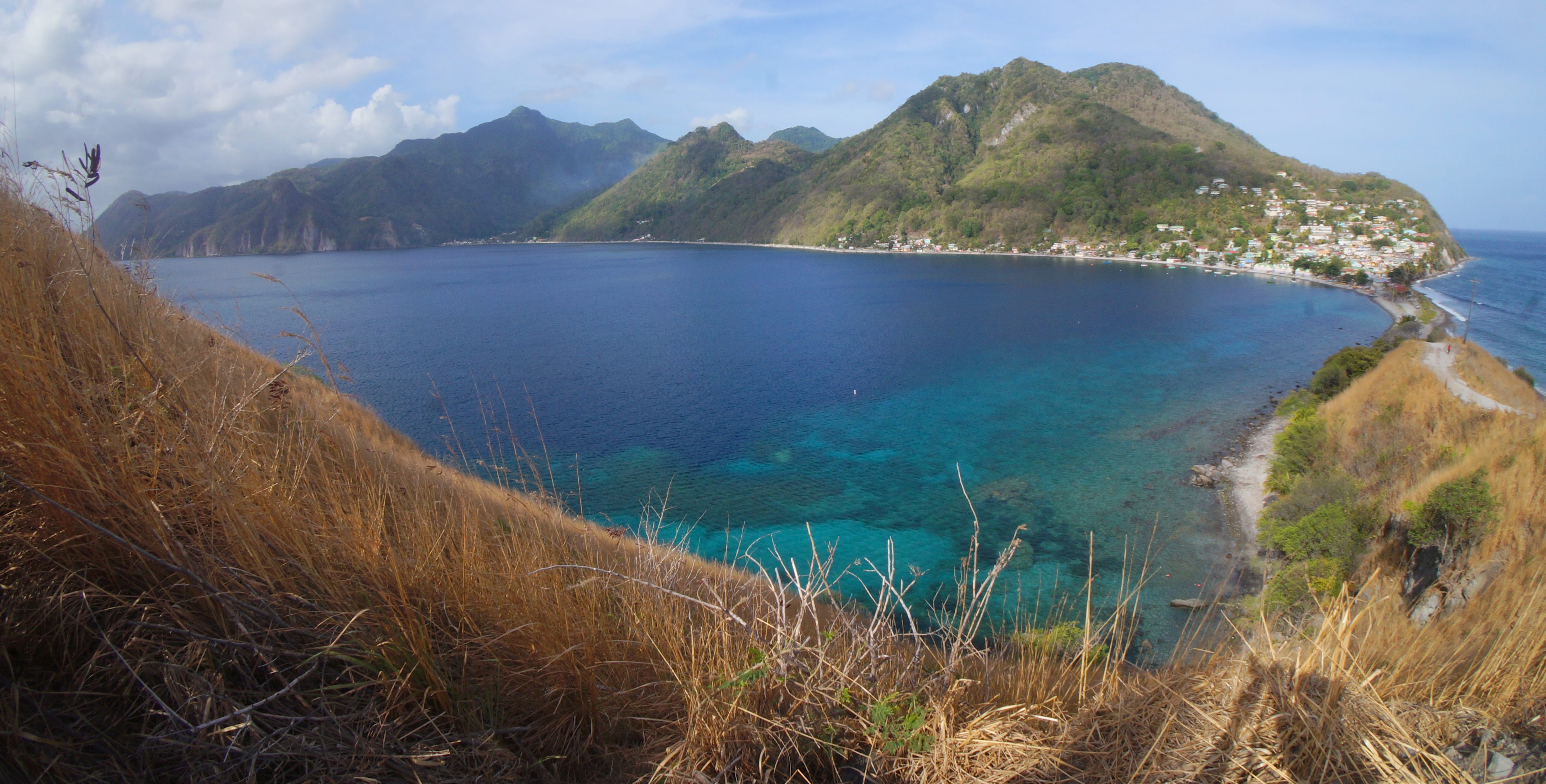 View of Scott's Head Village, taken from Scott's Head, Dominica. The town of Soufriere is in the distance, top left. More freely usable Dominica pictures.